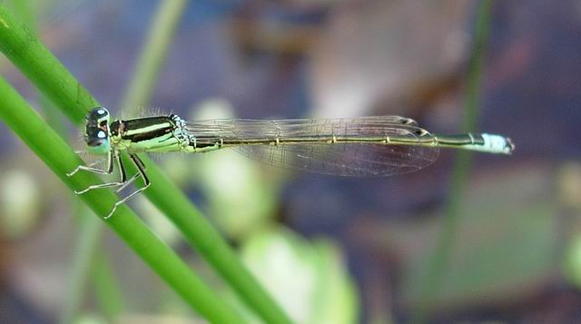 Scarce Blue-tailed Damselfly (Ischnura pumilio) Localised species in marshy areas with short vegetation and exposed mud. The heavy grazing and trampling from ponies keeps a few sites in the New Forest suitable. This male can be told from 'common' Blue-tailed Damselfly by the blue 'tail' being closer to the end on the abdomen.